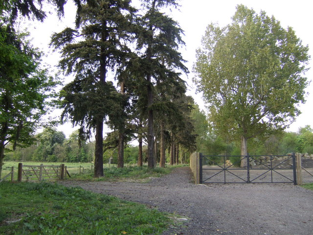 Fine pines By the footpath which crosses Hatch Deer Park. This view is north of the A20 at Mersham.